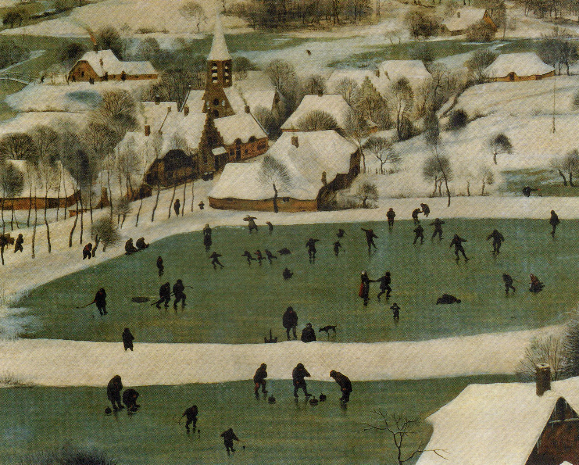 Mountains with village.